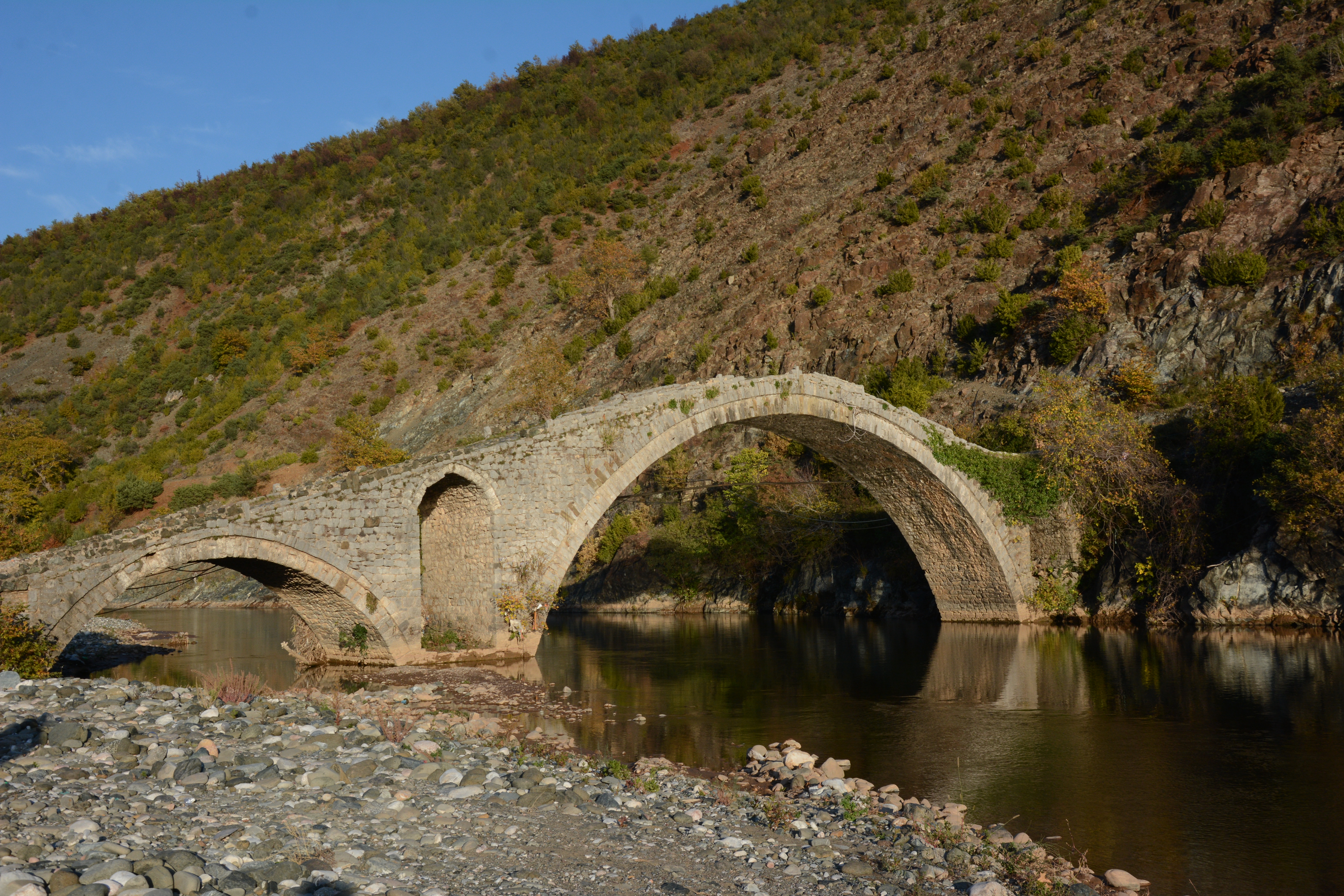 Kamare old stone bridge